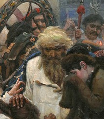 Detail of the painting "Morning of streltsy's beheading" by Vasily Surikov (1881)